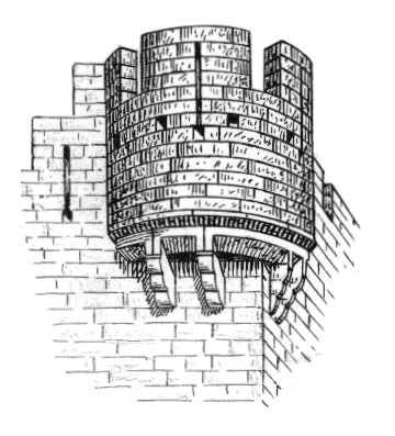 Line art drawing of a bartizan.